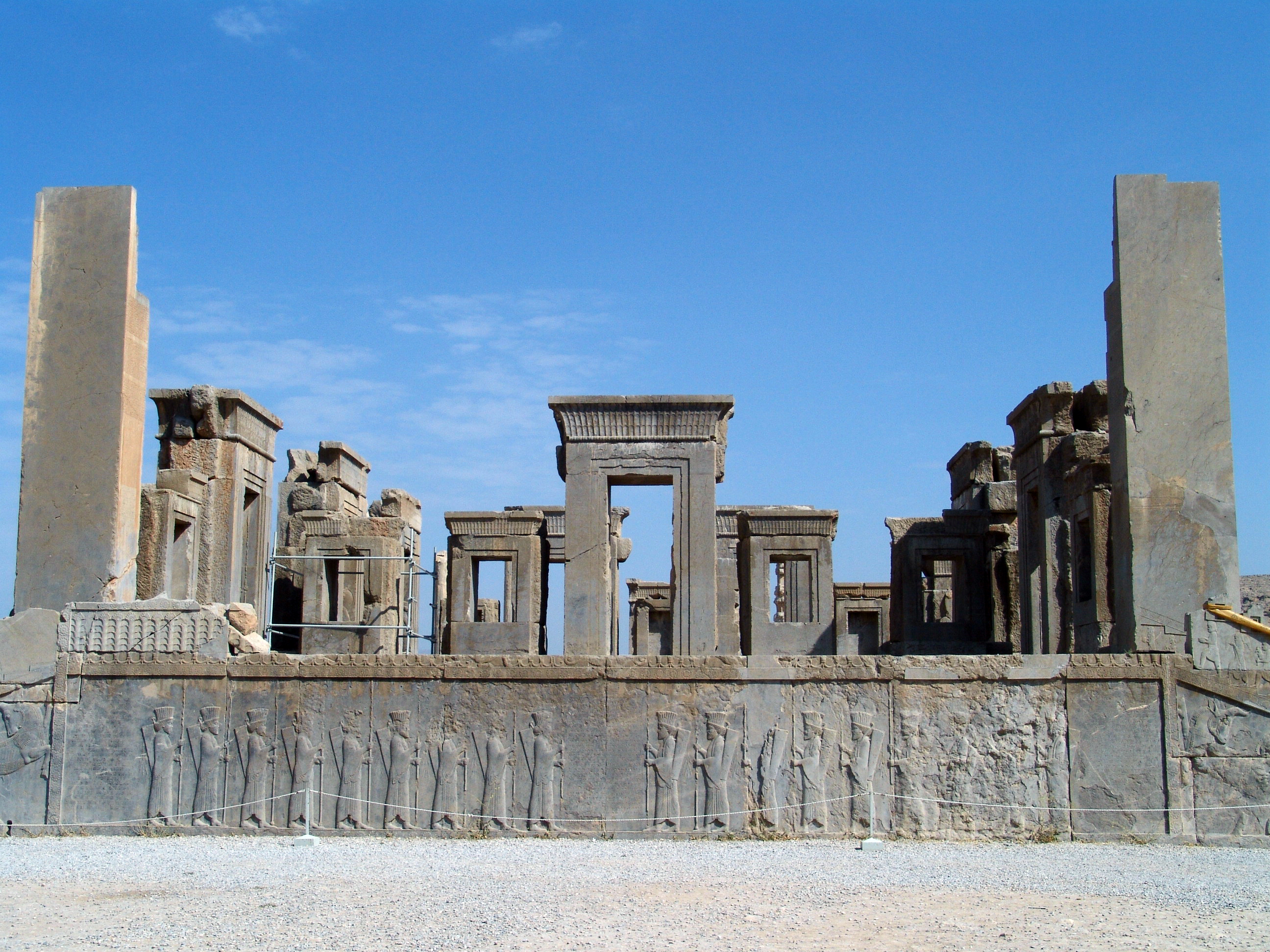 Tachara palace, Persepolis, Iran.